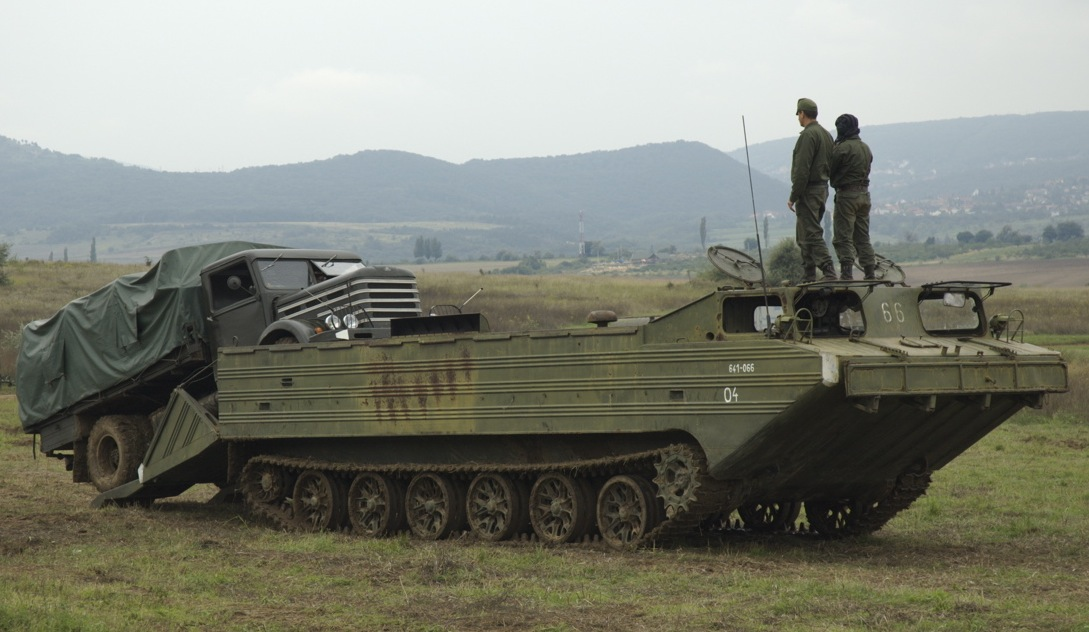 PTS Soviet amphibious vehicle with Csepel D-344 truck (Hungary)